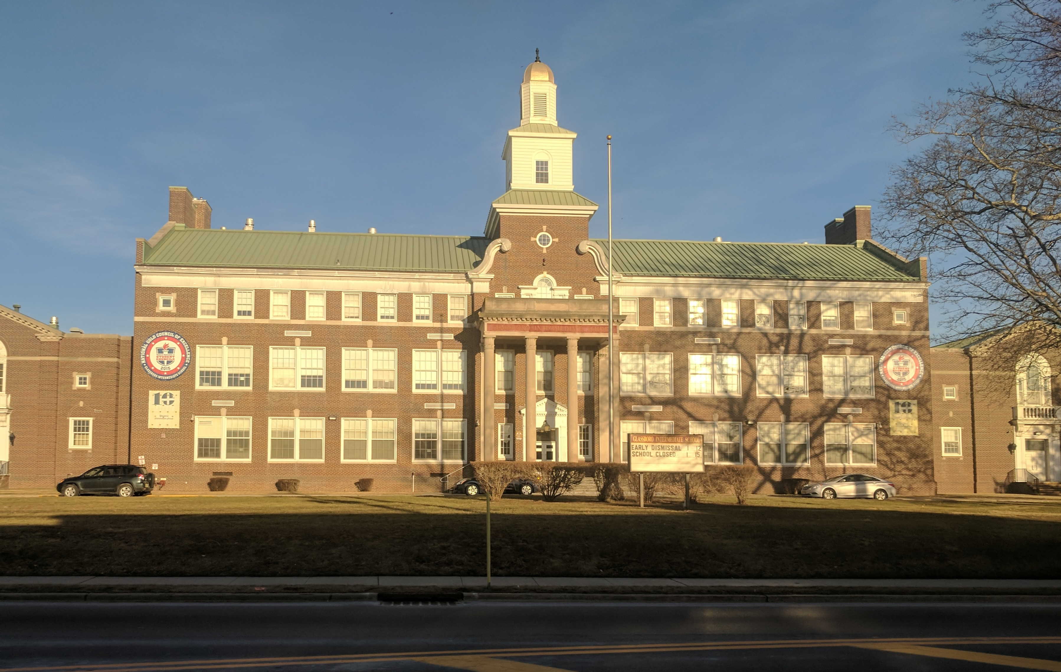 An late in the day picture of the front of Glassboro Intermediate School.